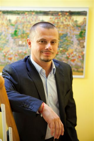 Mgr. Jan Vidím